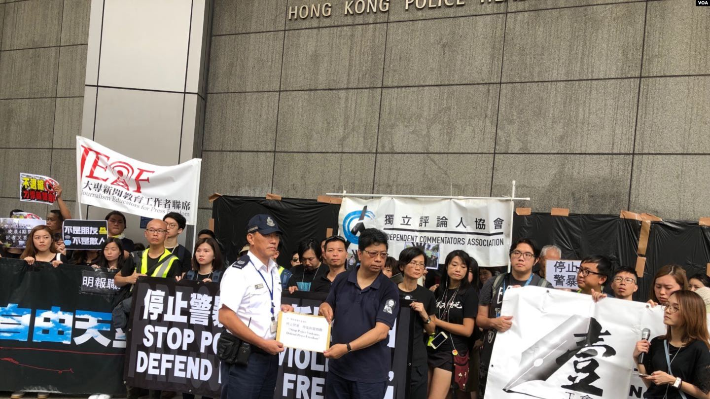 Protesters handing their letters to police representative.